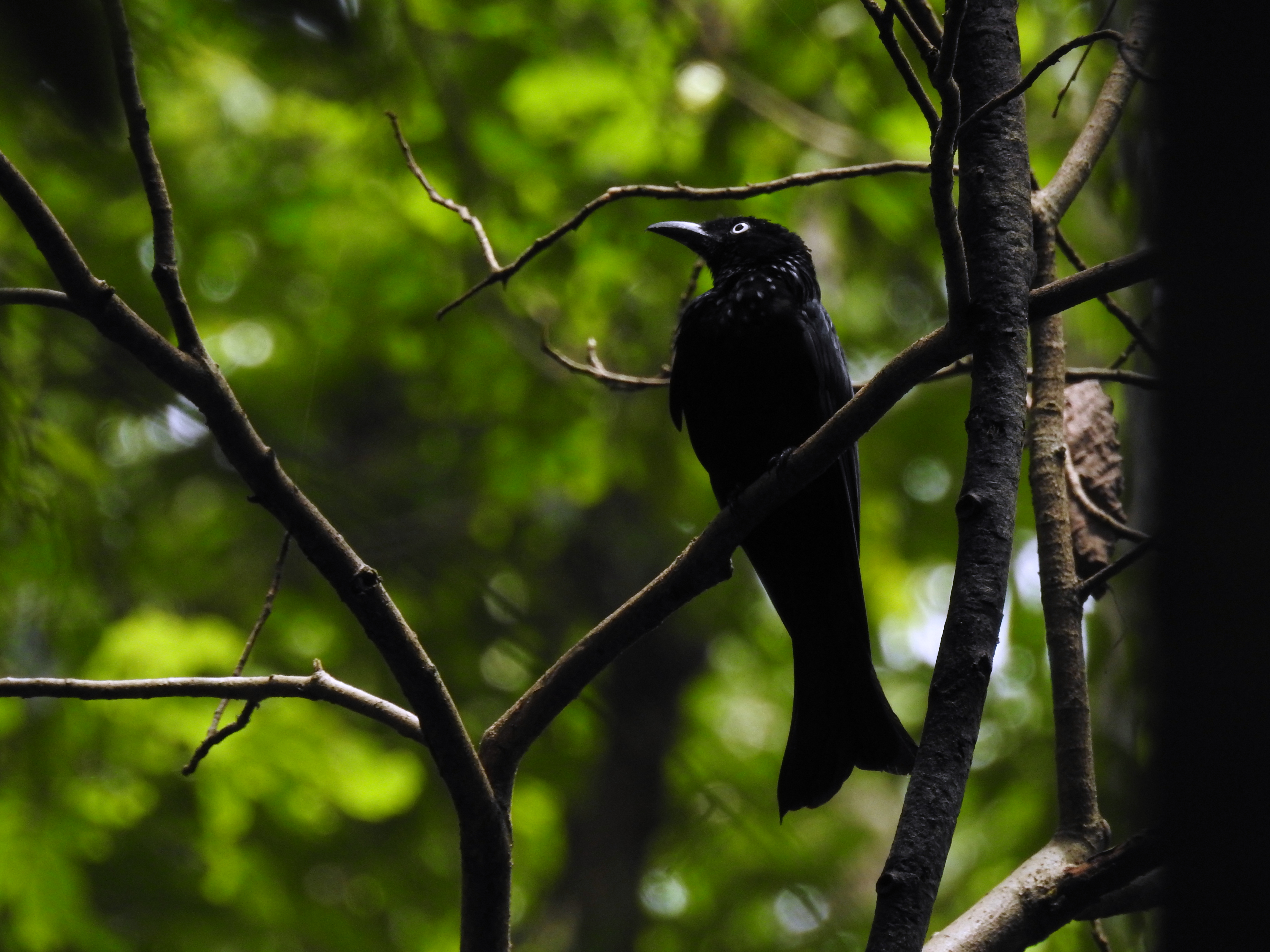 White-eyed Spangled Drongo in Tangkoko Nature Reserve, Sulawesi